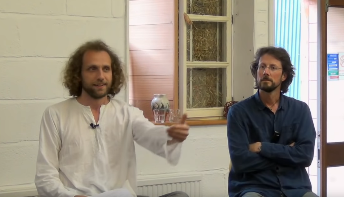 Original video caption: "In 2009, Paul Kingsnorth and Dougald Hine published Uncivilisation: The Dark Mountain Manifesto, a challenge to face the deep cultural roots of today's crises and a call for new stories for an age of climate change and ecocide. Today, the Dark Mountain Project has grown into an international network of writers and thinkers, artists and musicians, organising festivals, events and exhibitions, centred on the Dark Mountain journal. In this public conversation, Dougald and Paul will discuss some of the lessons they have learned from this journey and the questions it has thrown up: where are the new stories that could help us make sense of our situation? How do we live with ecological grief? What is the role of art and culture in a time of unravelling? What happens when we create a space in which we can talk about the darkness and doubt that we feel in the light of ecological crisis? And what does it mean to find 'the hope beyond hope' which the manifesto speaks of?"